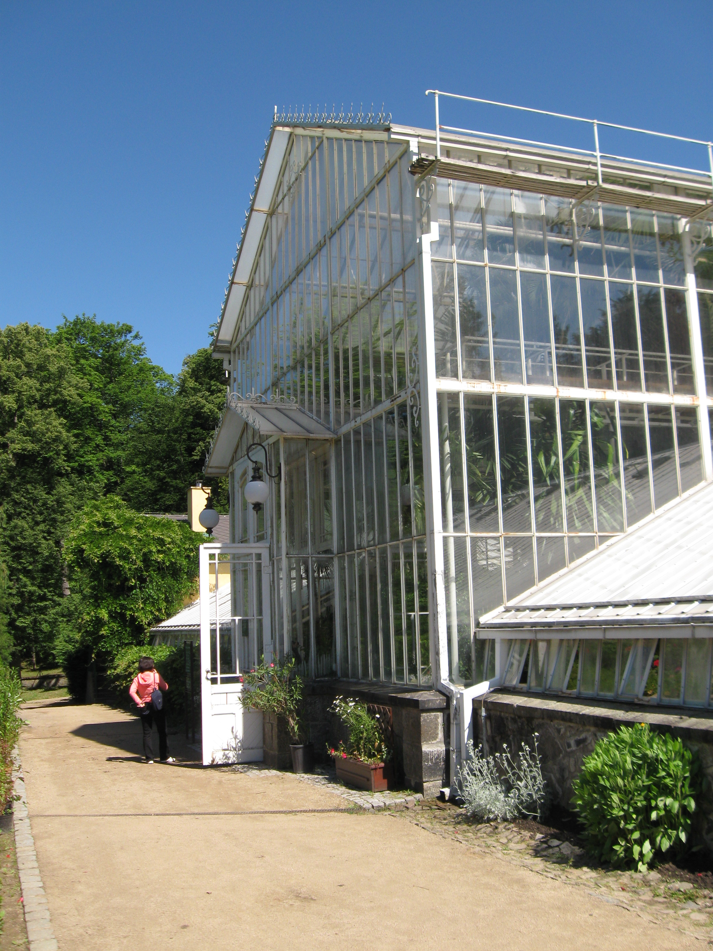 Rose Garden at Konopiště Palace, Benešov District, Czech Republic.